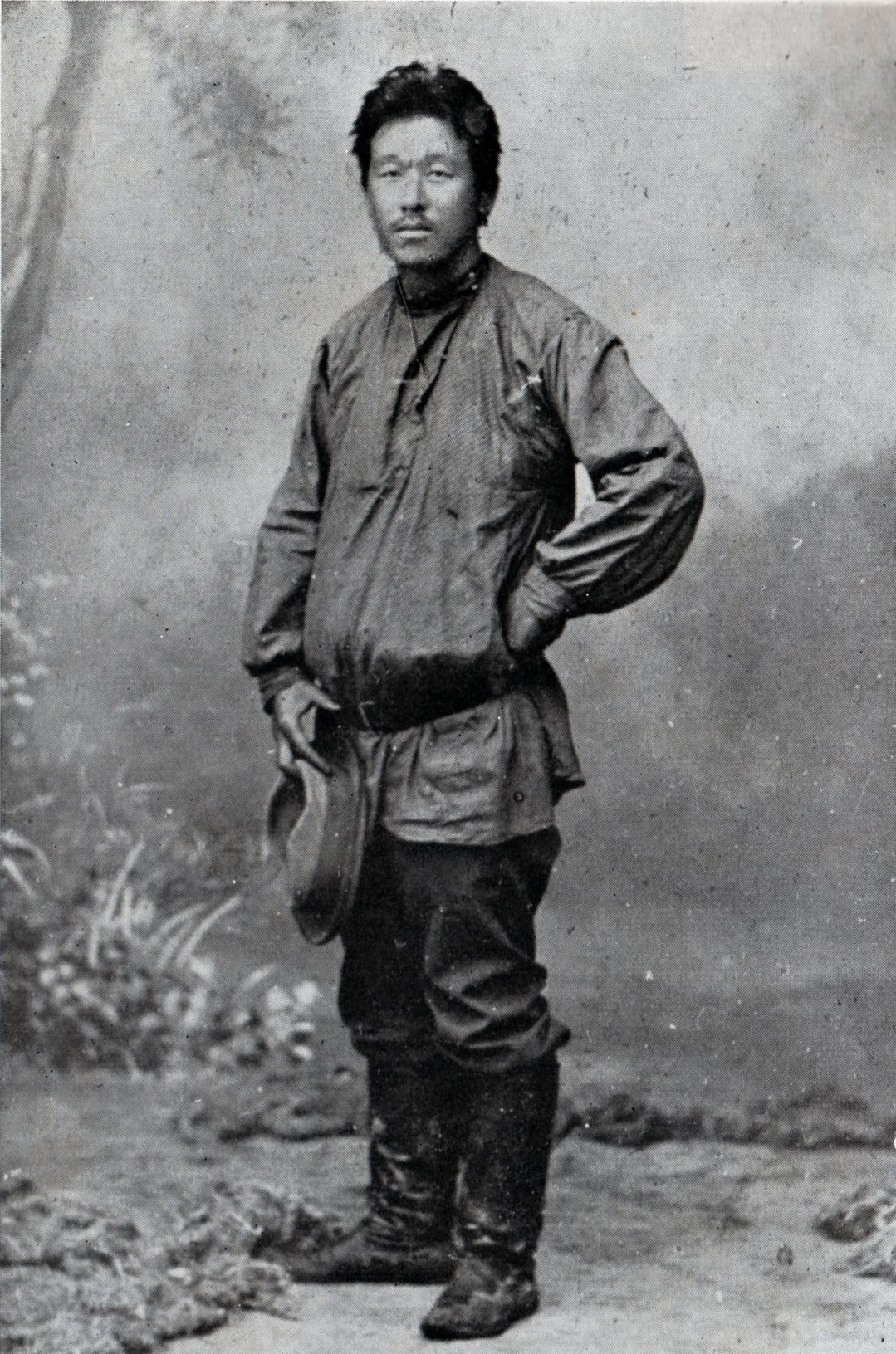 Ishimitsu Makiyo is an Imperial Japanese Army Major.